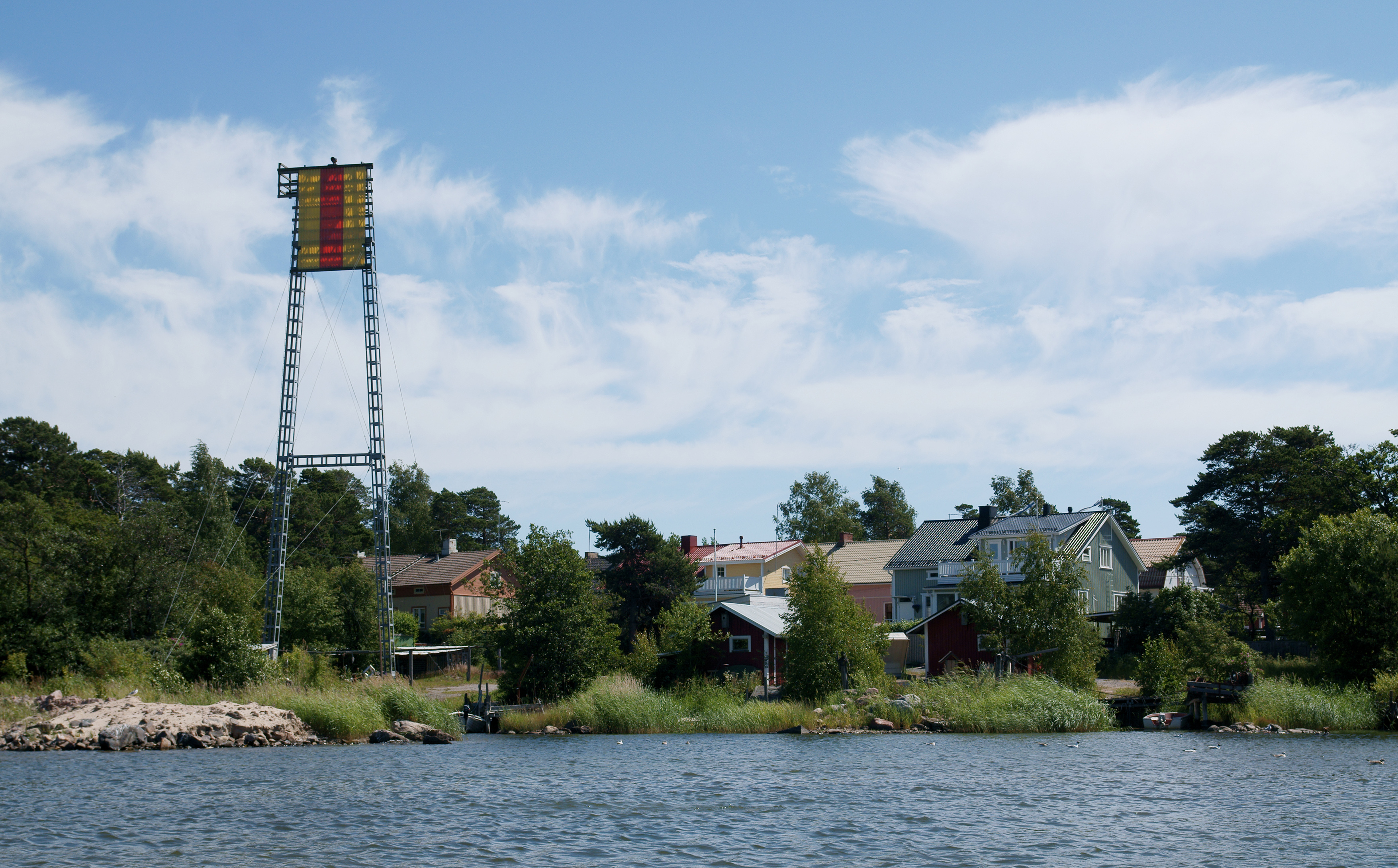 Uniluoto seen from Topinranta.